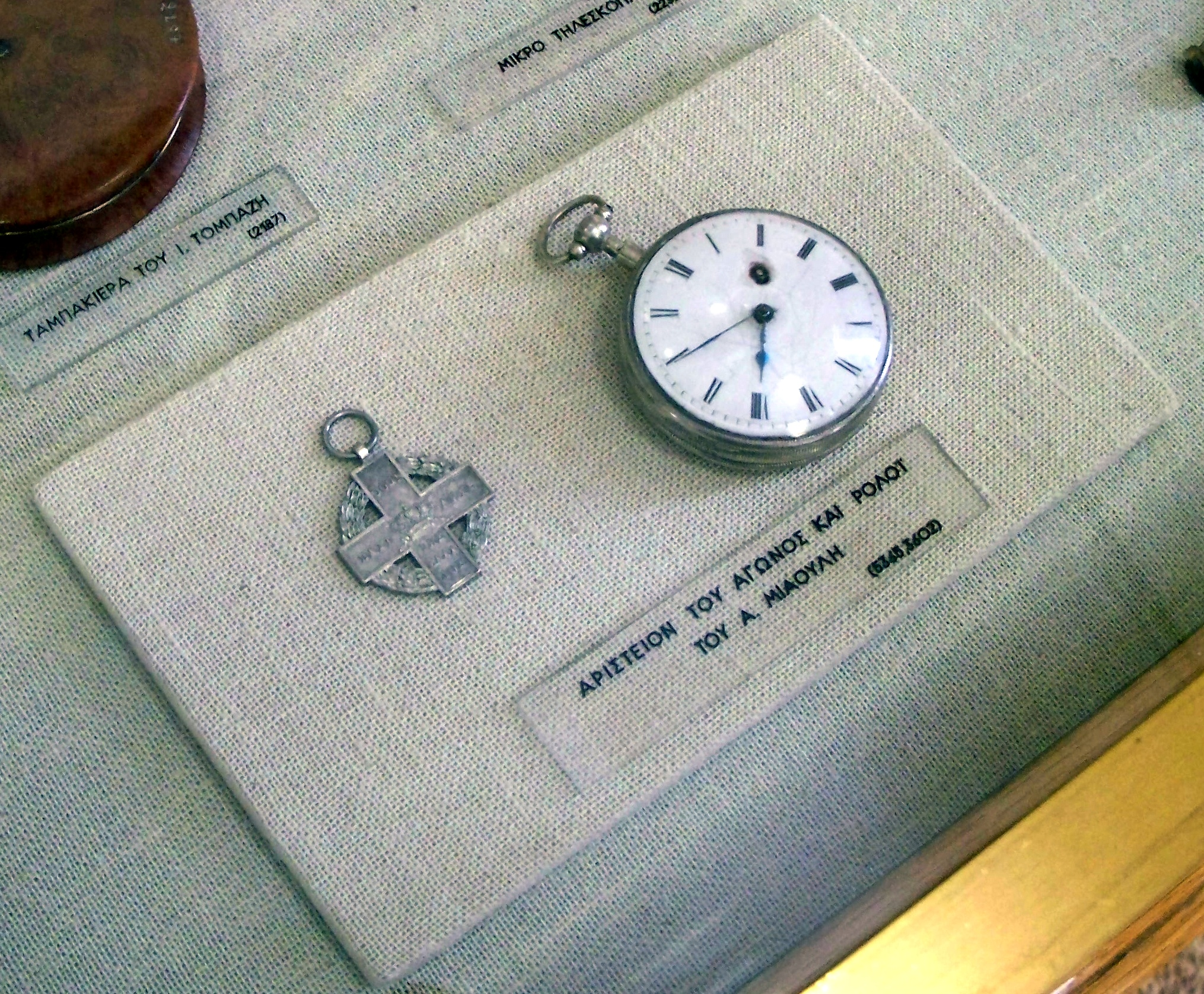 Medal of Excellency and pocket watch of greek revolutionary admiral Andreas Miaoulis (Ανδρέας Μιαούλης). National Historical Museum, Athens, Greece.